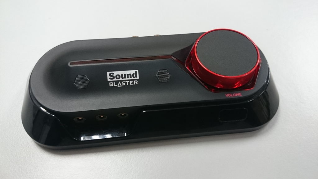 Sound Blaster Omni Surround 5.1